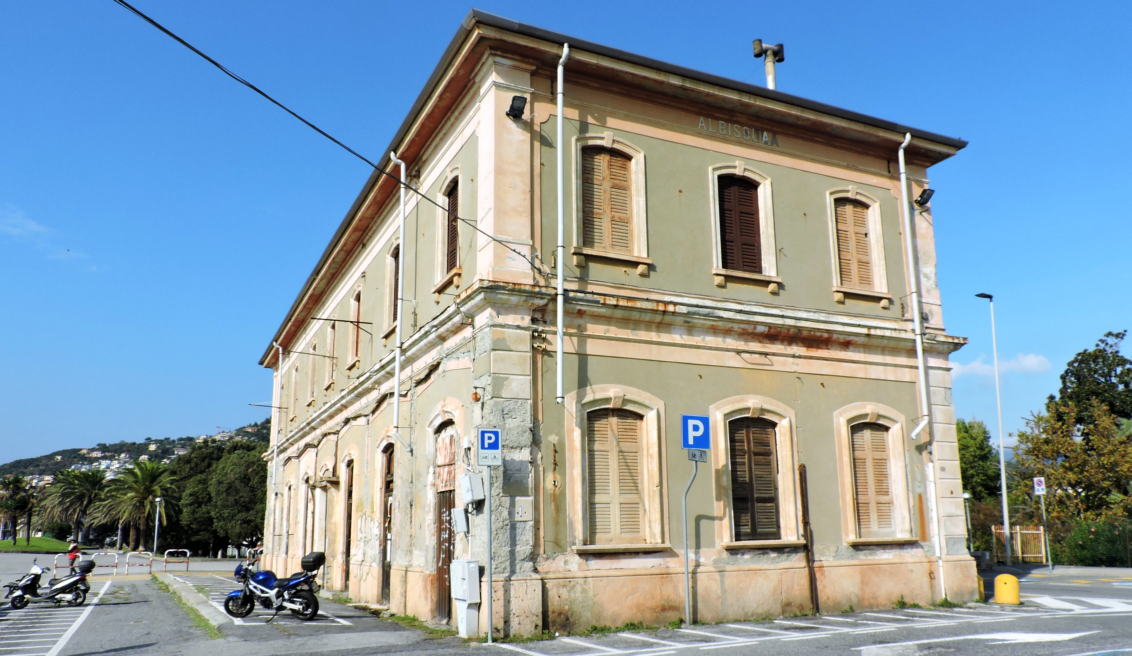 Albisola (SV, Italy): old train station